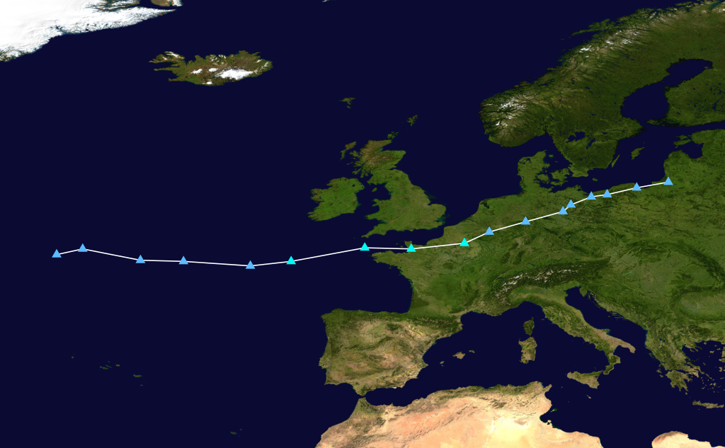 Track map of Storm Norberto of the 2019-20 European windstorm season. The points show the location of the storm at 6-hour intervals. The colour represents the storm's maximum sustained wind speeds as classified in the Saffir–Simpson scale (see below), and the shape of the data points represent the nature of the storm, according to the legend below. Saffir–Simpson scale Tropical depression≤38 mph≤62 km/h Category 3111–129 mph178–208 km/h Tropical storm39–73 mph63–118 km/h Category 4130–156 mph209–251 km/h Category 174–95 mph119–153 km/h Category 5≥157 mph≥252 km/h Category 296–110 mph154–177 km/h Unknown Storm type Tropical cyclone Subtropical cyclone Extratropical cyclone / Remnant low / Tropical disturbance / Monsoon depression